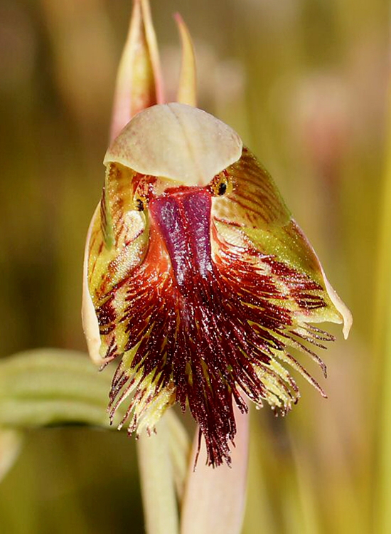 Calochilus herbaceus growing near Marrawah in Tasmania